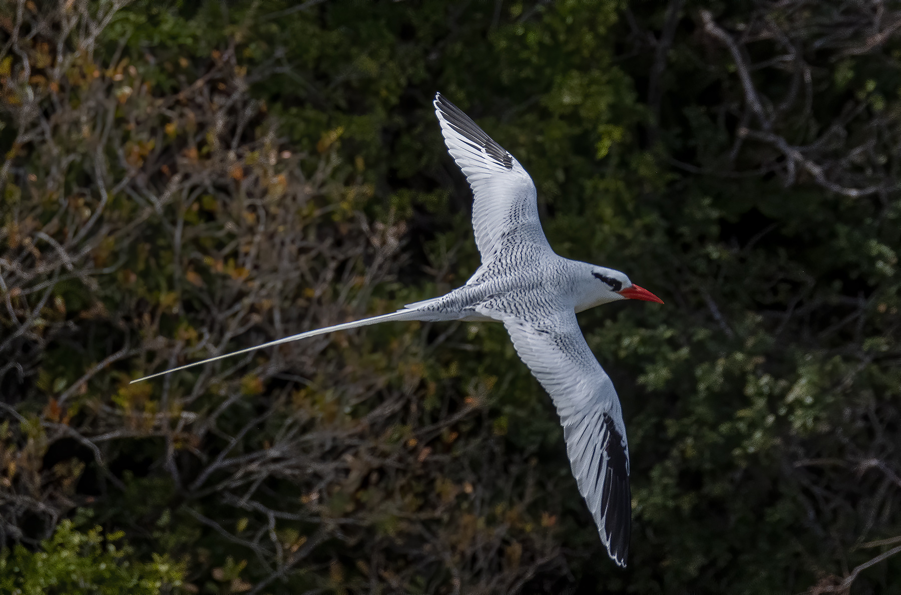 Red-billed tropicbird at Little Tobago Island, Trinidad, and Tobago on March 16, 2020